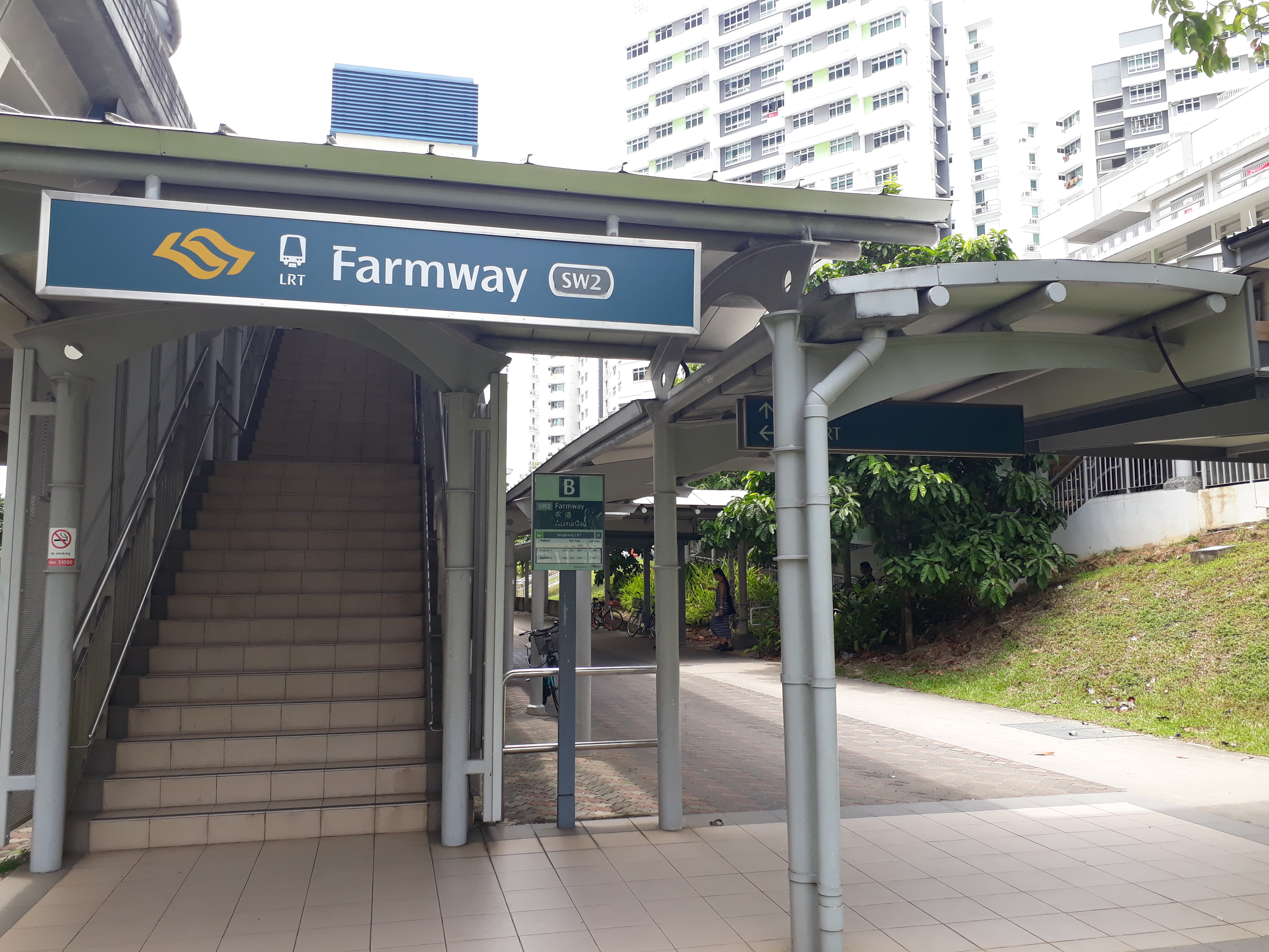 Farmway LRT